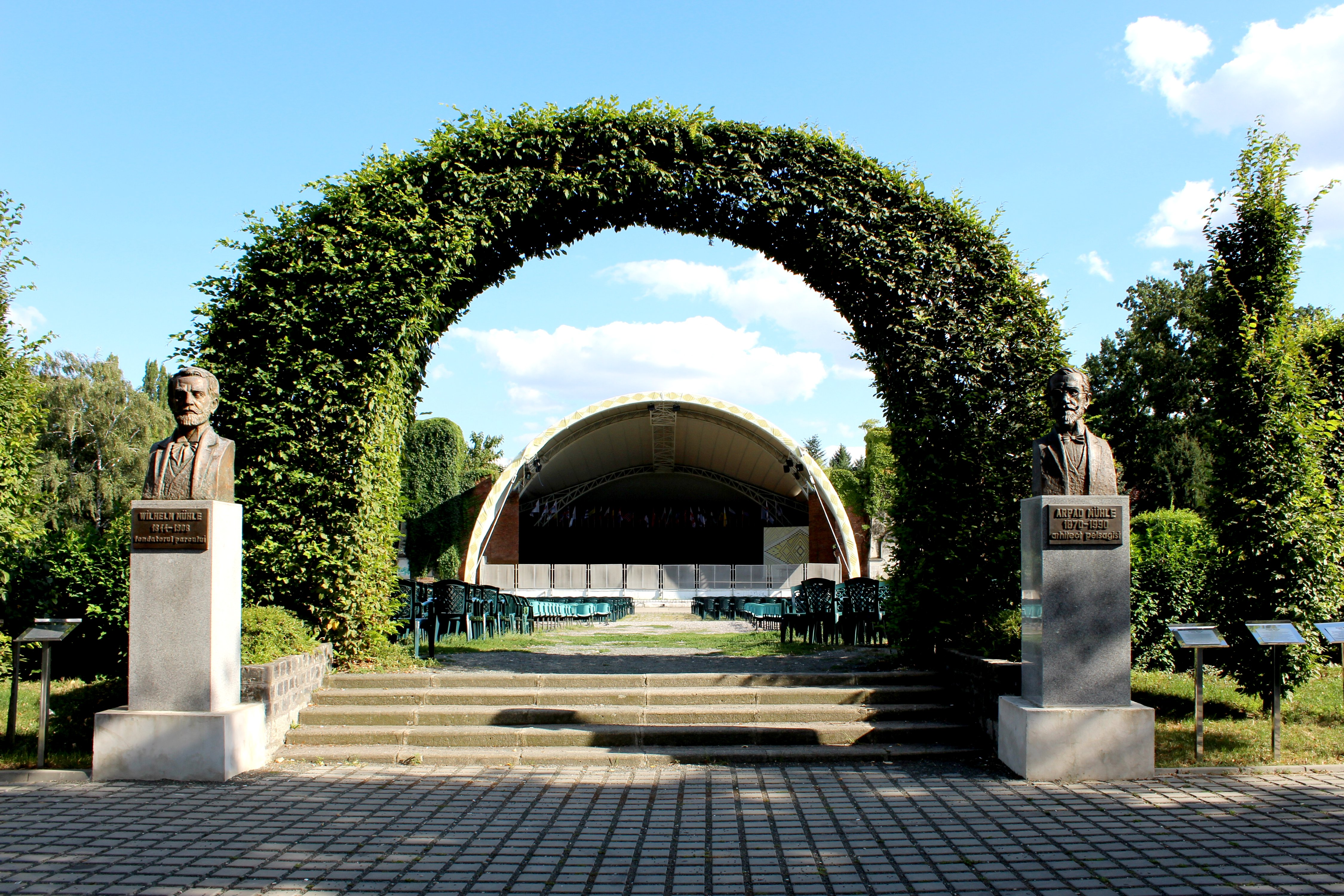 Park of Roses, Timisoara, Romania - entrance